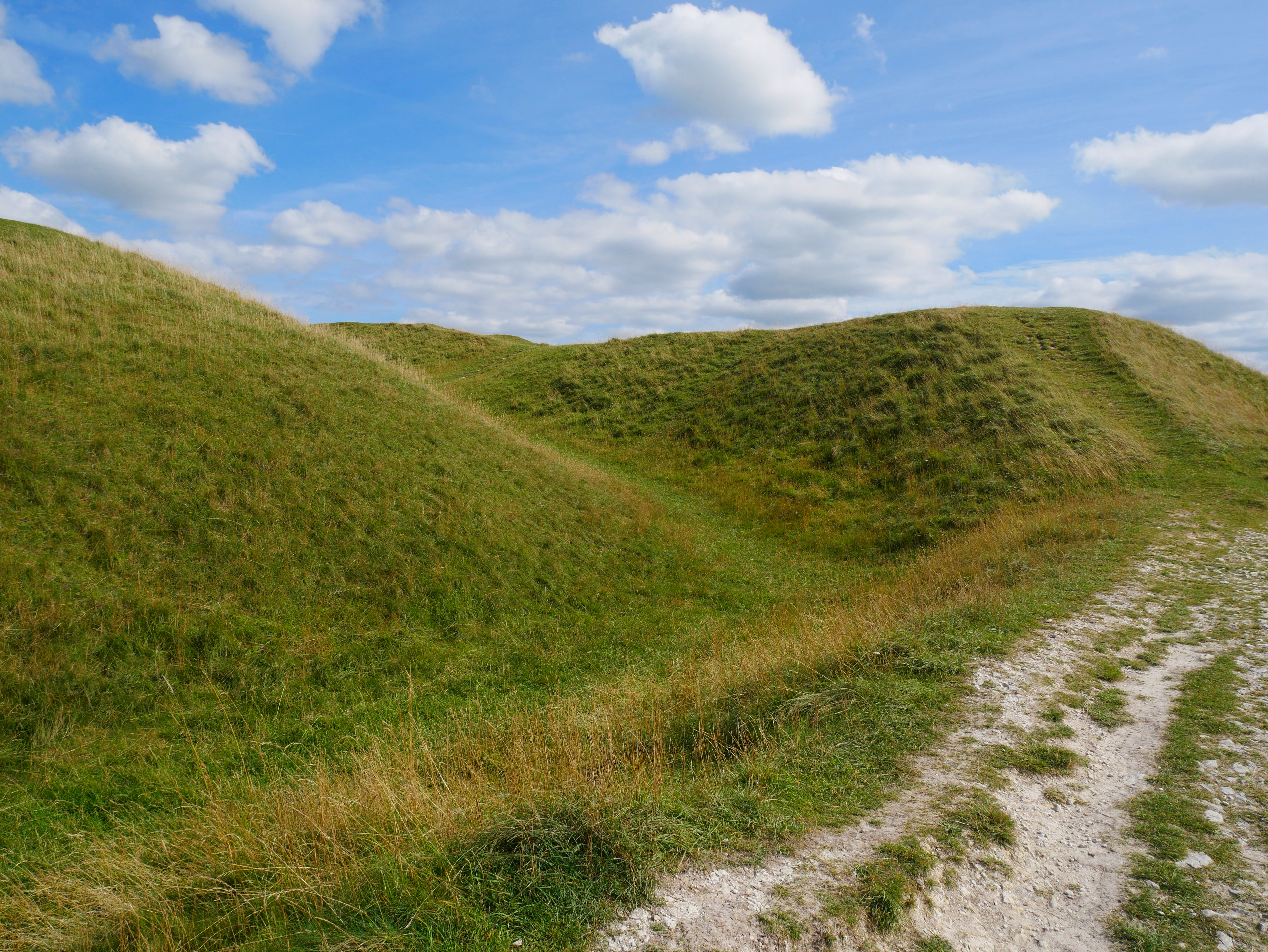 The two sets of banks that line the southern side of Bratton Castle. Here they are photographed at the southwest corner of the hillfort.